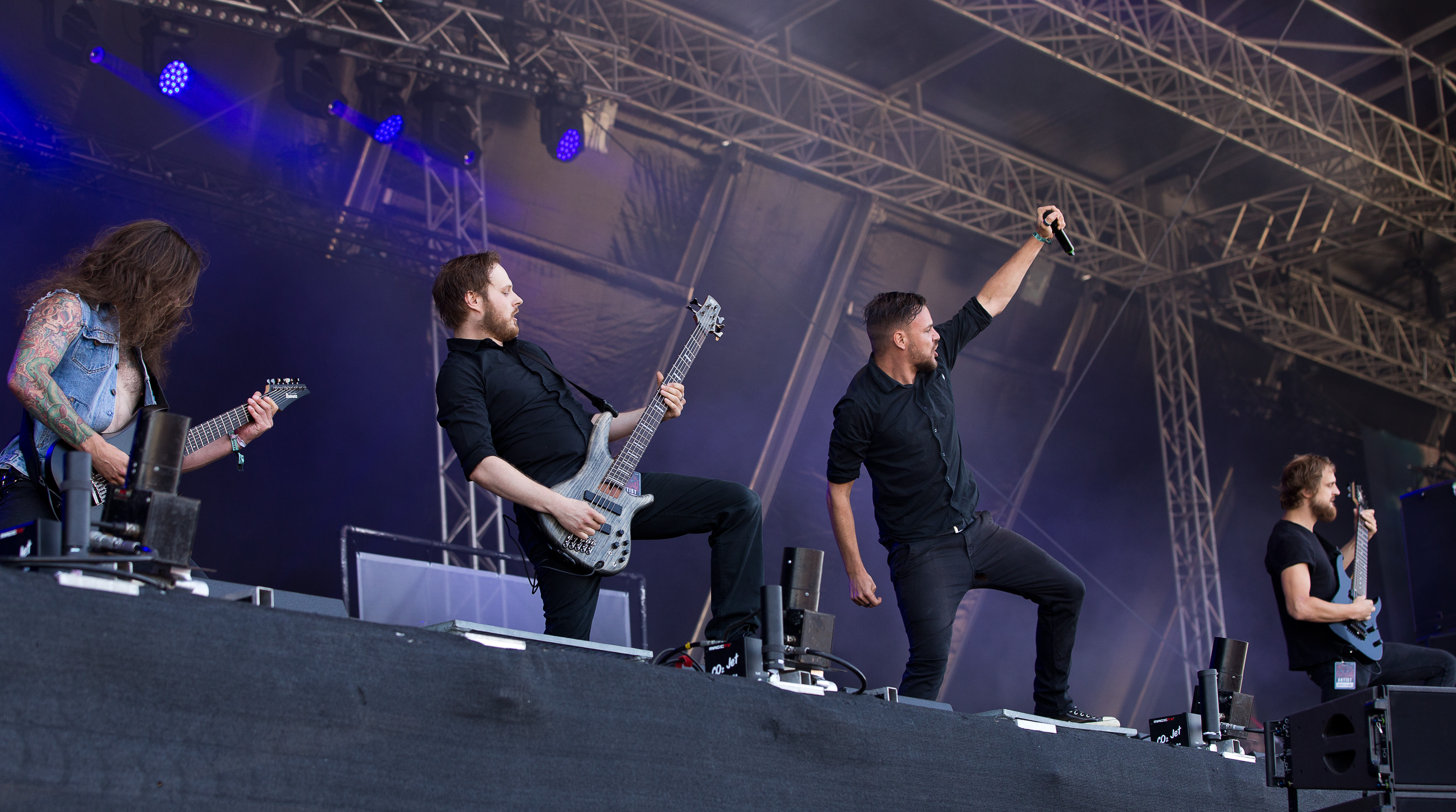 The German melodic death metal band Deadlock at the Rockharz Open Air 2016 in Ballenstedt/Germany.